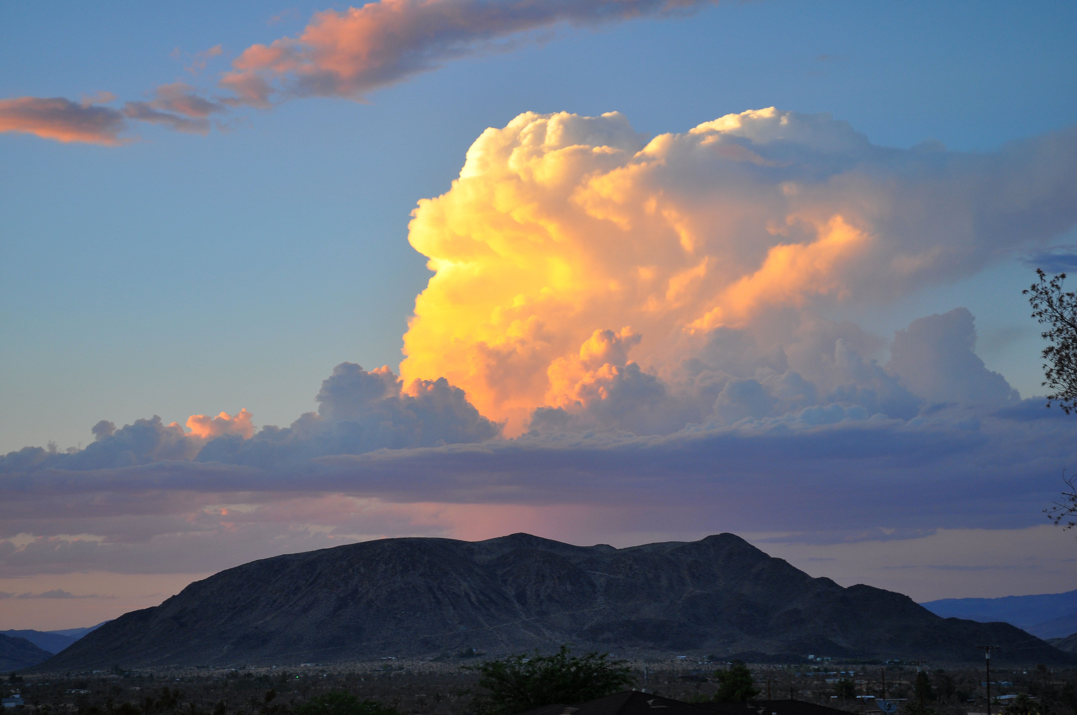 In the Mojave Desert, a Towering Vertical cloud appears to be set in place by a hand of the Gods.